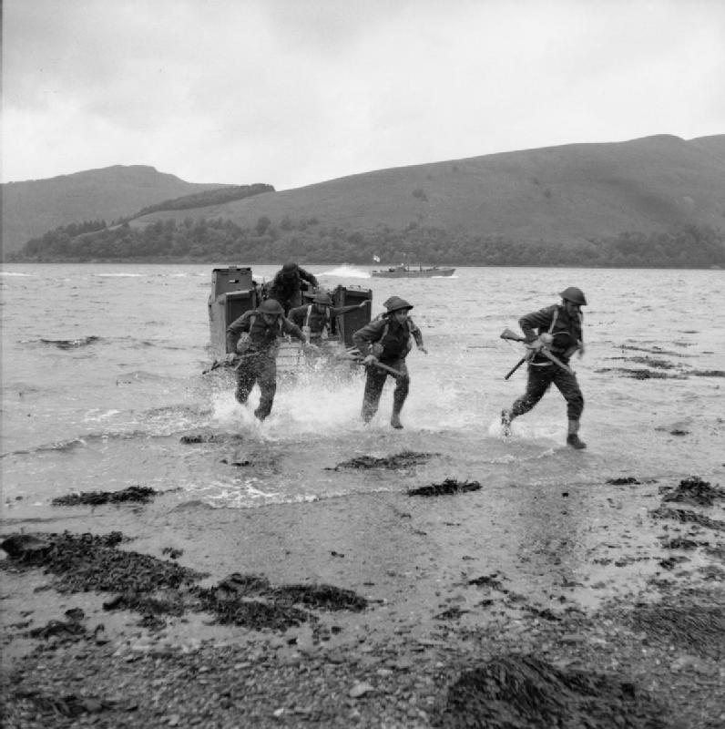 The British Army in the United Kingdom 1939-1945 Troops rushing ashore from a landing craft during combined operations training by 29th Infantry Brigade Group at Loch Fyne, Argyllshire.